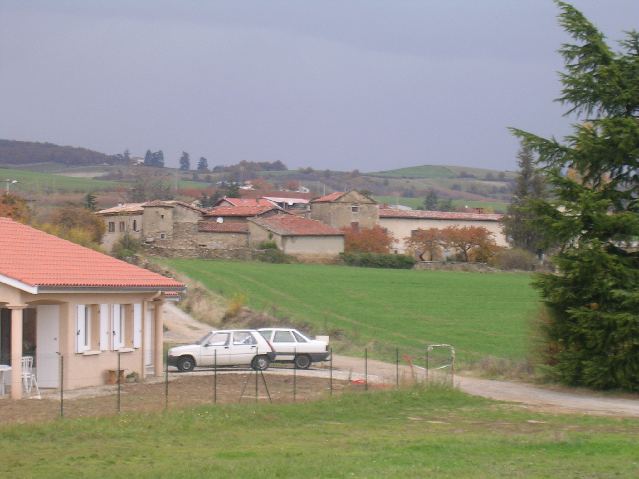 The commune of Mornant in the Rhône department in eastern France.